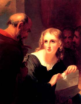 Portia and Shylock